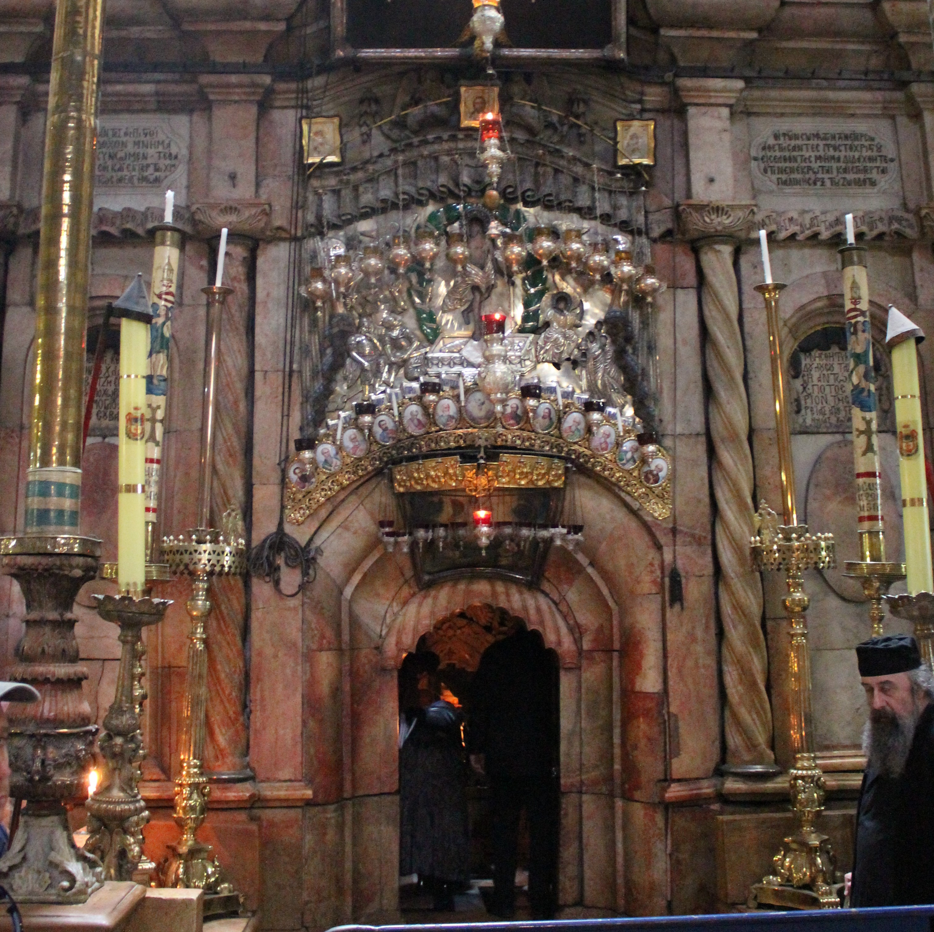 Aedicule at the Church of Holy Sephulchre